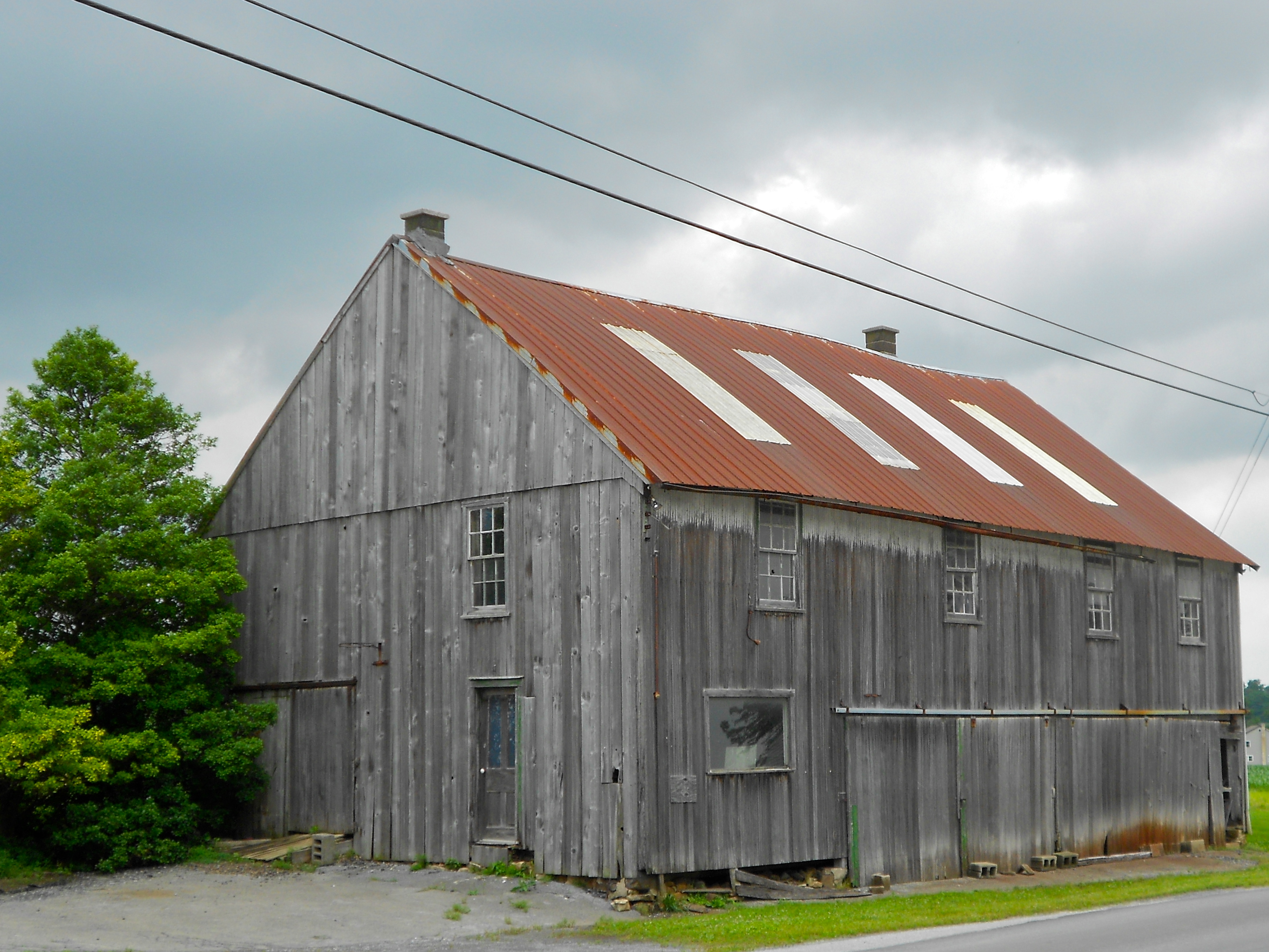 Barn in the village of Nickel Mines, Lancaster, Pennsylvania